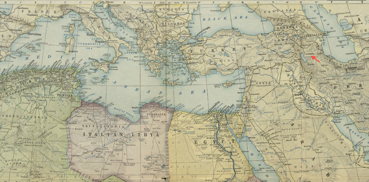 Detail of: Map of Africa and adjoining portions of Europe and Asia; a small red arrow points to Tabriz Author: National Geographic Society (U.S.) Publisher: National Geographic Society (U.S.) Scale: 1:11,500,000